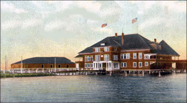 Onondaga Lake Yacht Club in 1907